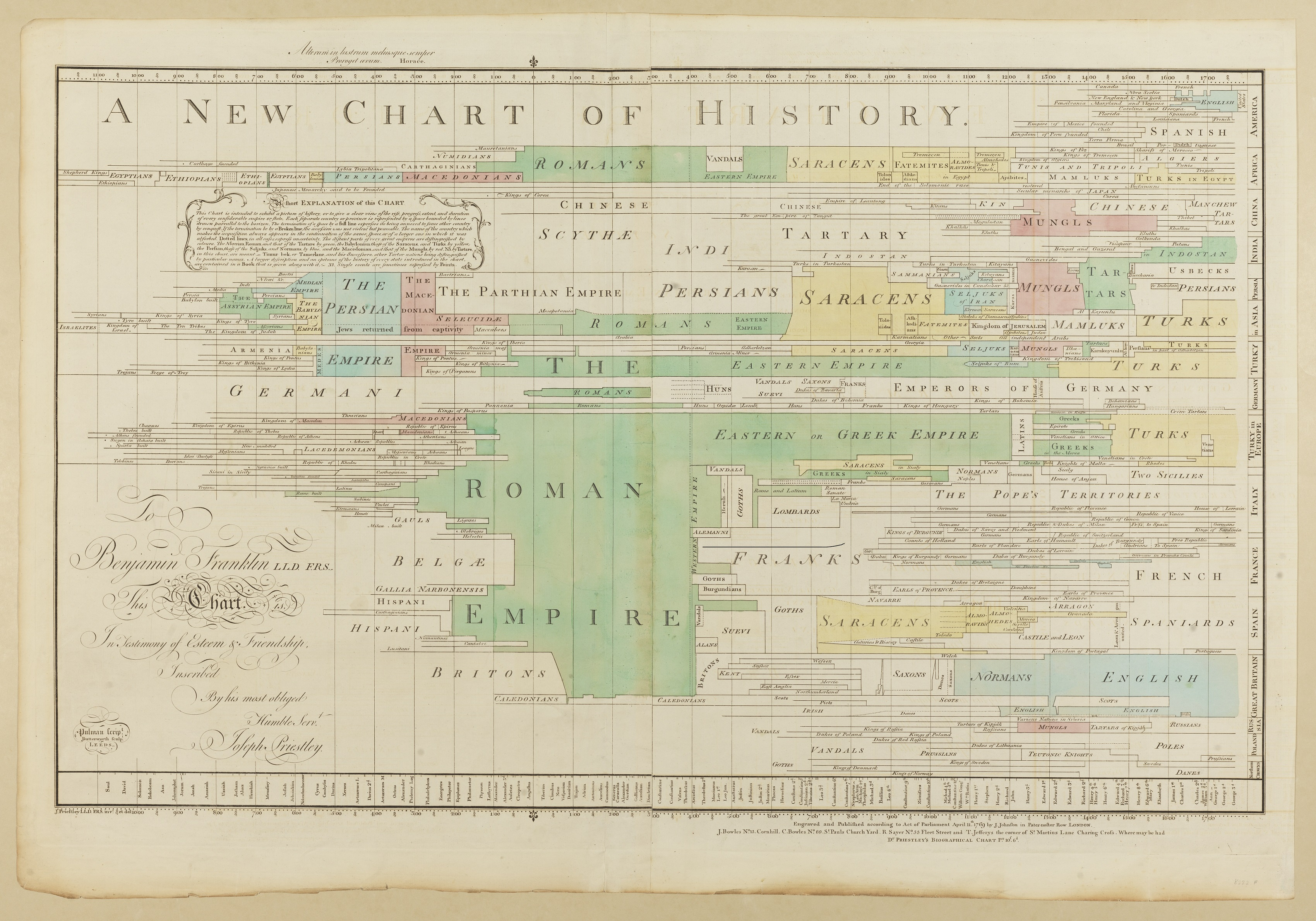 A color version of Joseph Priestly's A New Chart of History. To Benjamin Franklin LLD. FRS. This Chart In Testimony of Esteem & Friendship. Inscribed By his most obliged Humble Serv. Joseph Priestley.